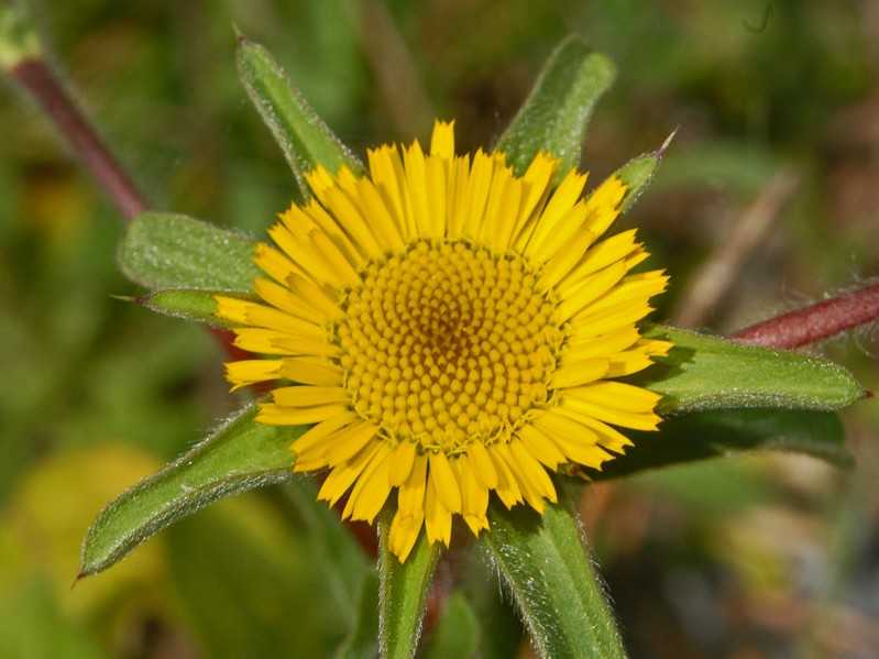 Pallenis spinosa - Genova, Italy